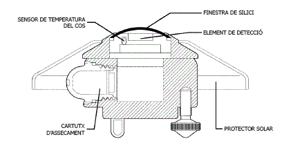 Pyrgeometer showing the principal components (Catalan version)